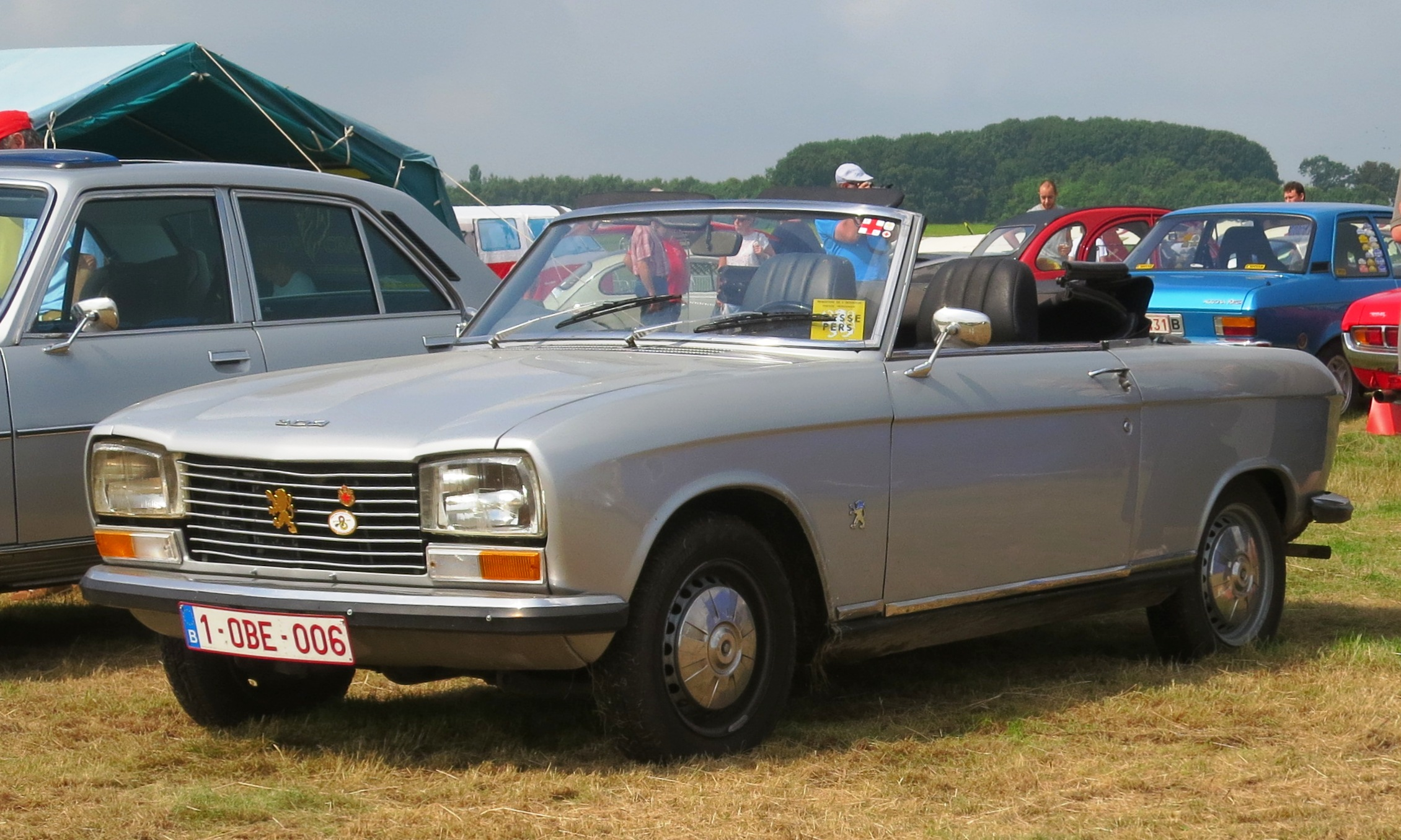 Peugeot 304 cabriolet at Schaffen-Diest